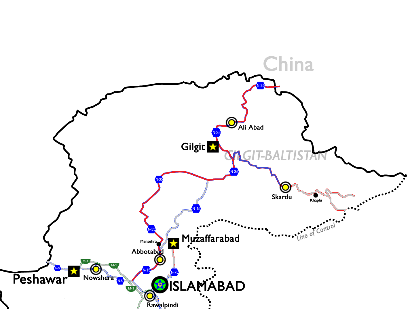 A map depicting the Karakoram Highway